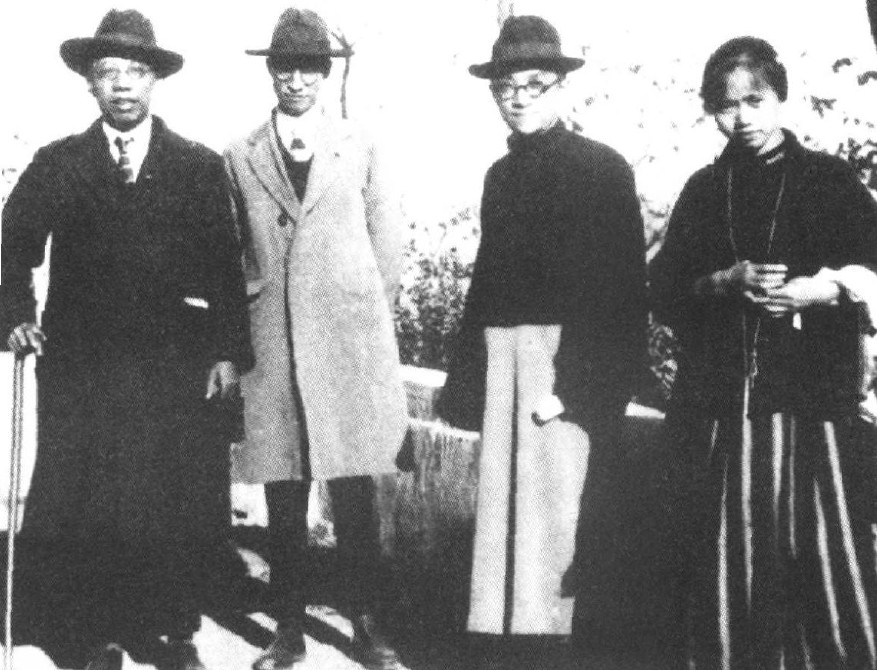 (from left to right) Gao Mengdan, Zheng Zhenduo, Hu Shih and Cao Chengying in Hangzhou,1924.